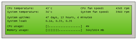 An LCD